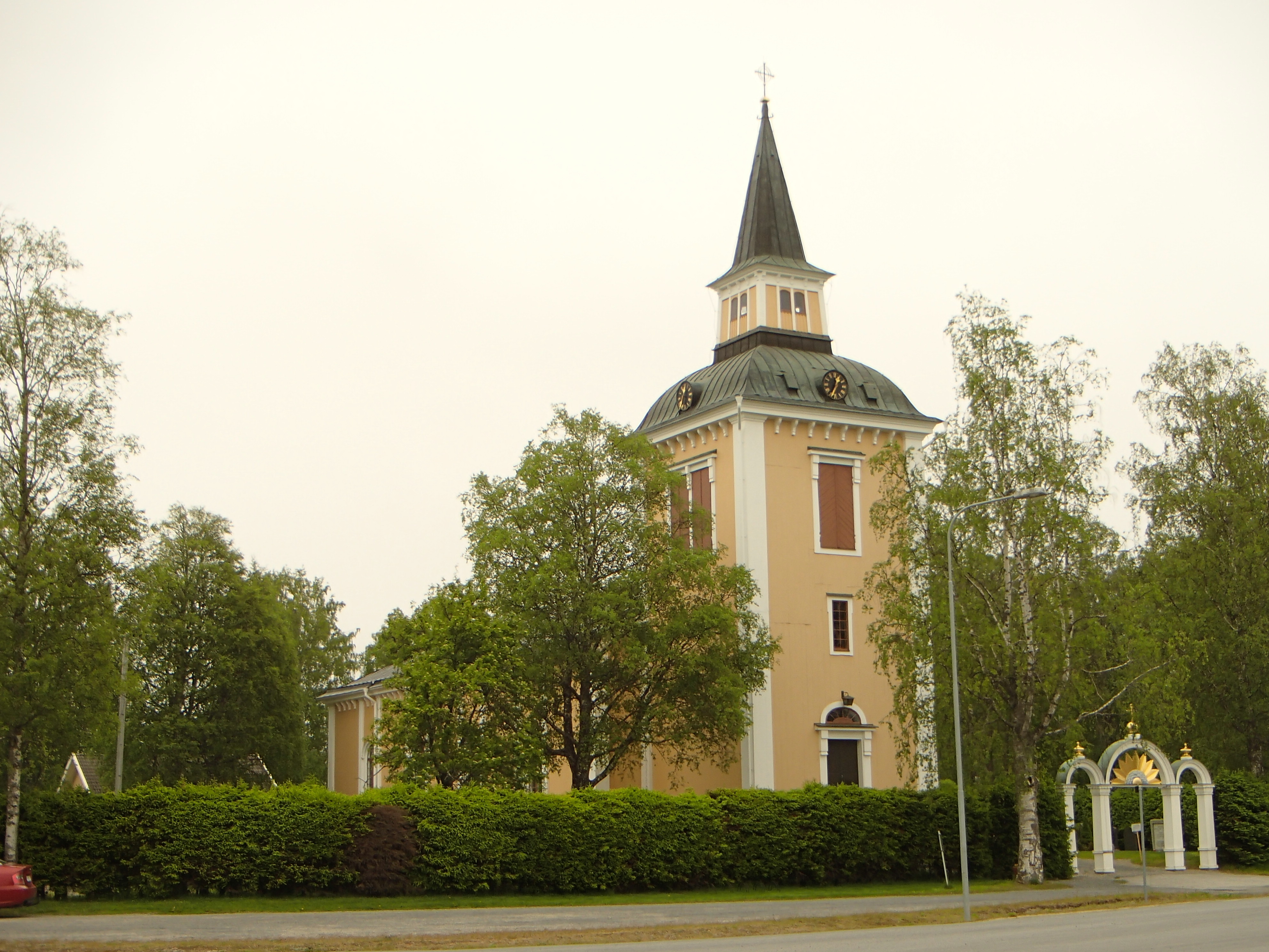 The church building of "Gideå kyrka" at Gideå in Örnsköldsvik Municipality